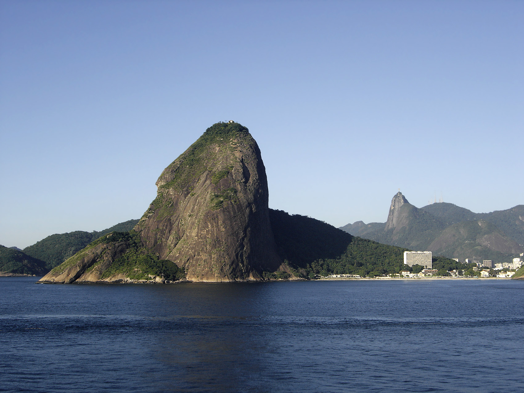 Rio de Janeiro : the Sugarloaf and the Corcovado seen from the sea.